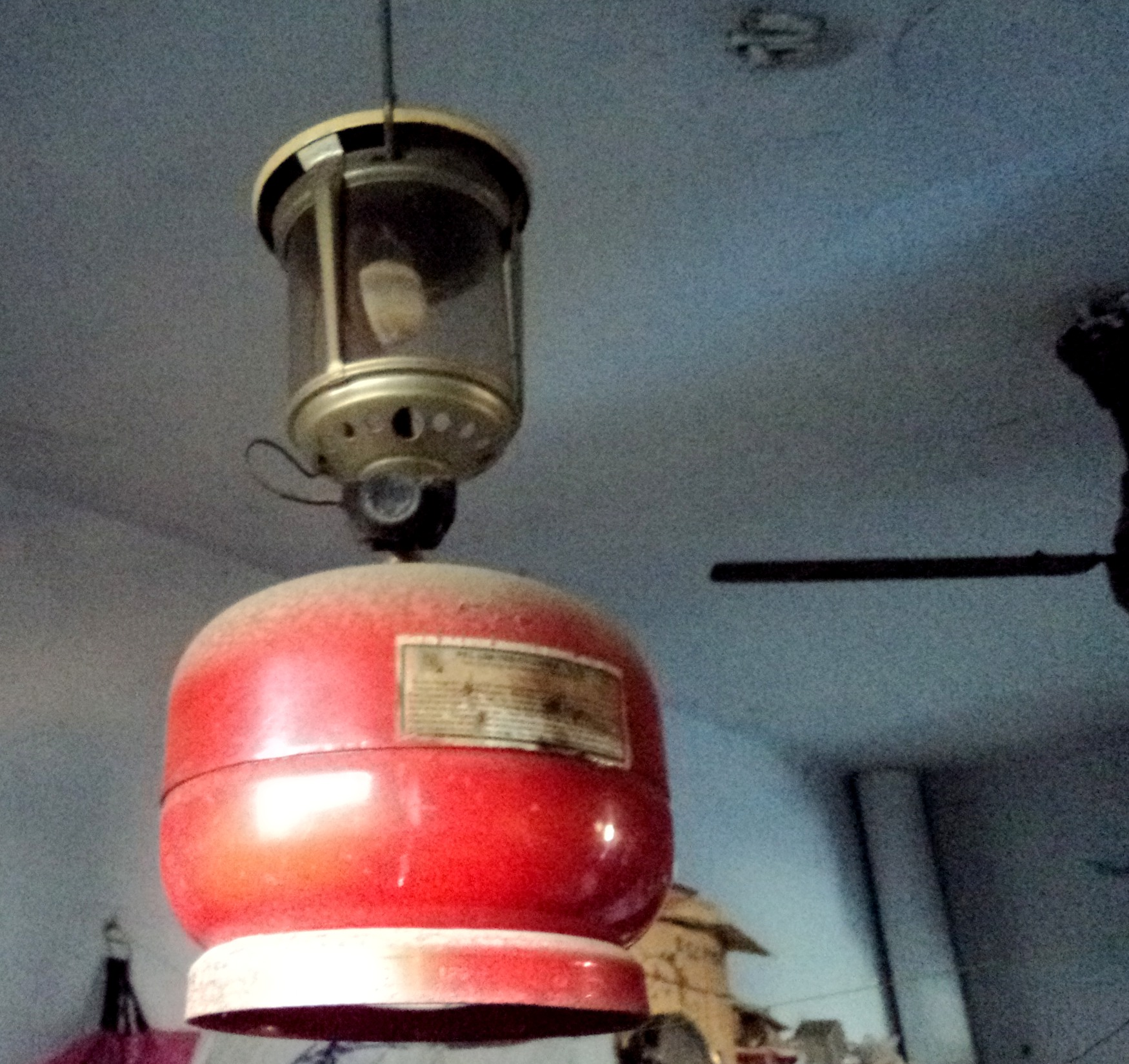 gas cylinders in Tamil Nadu, India.